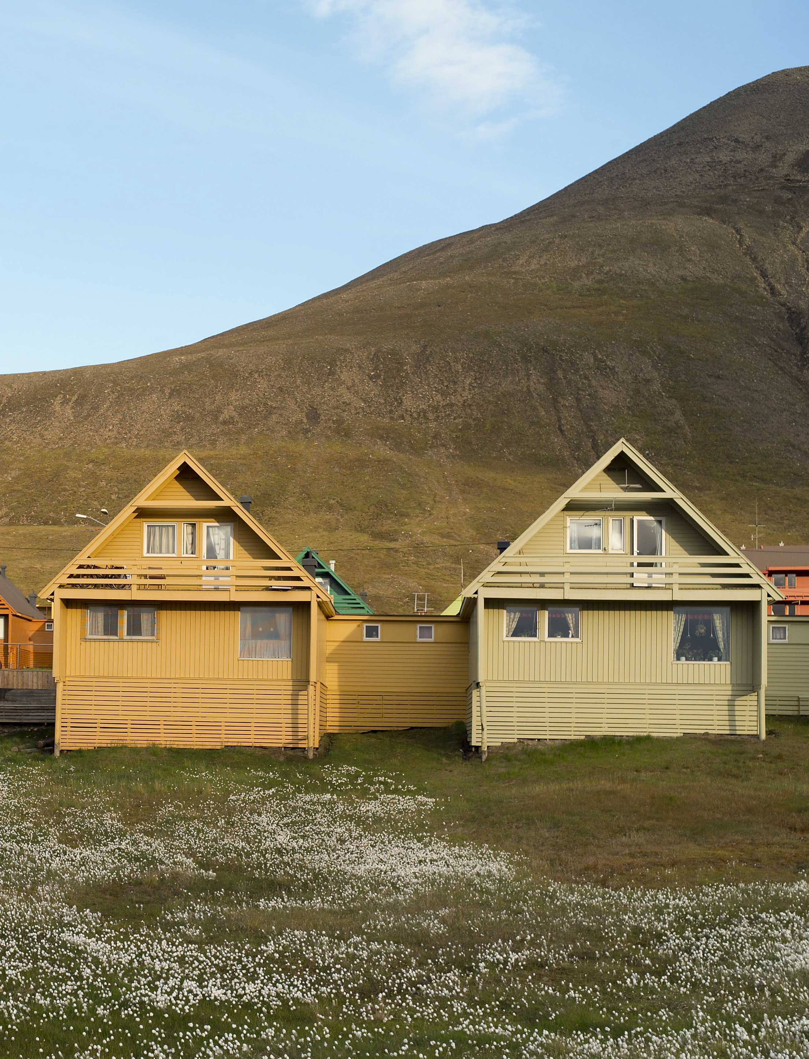 The Svalbard archipelago is the northernmost part of Norway. Of the islands, Spitsbergen is the largest and is host to Svalbard’s Administrative center, the settlement of Longyearbyen (population in 2008 was 2,040).